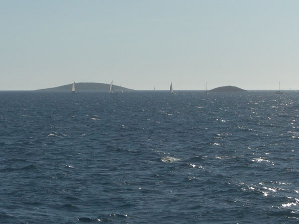 islands of Svilan and Barilac, near Primošten, Croatia